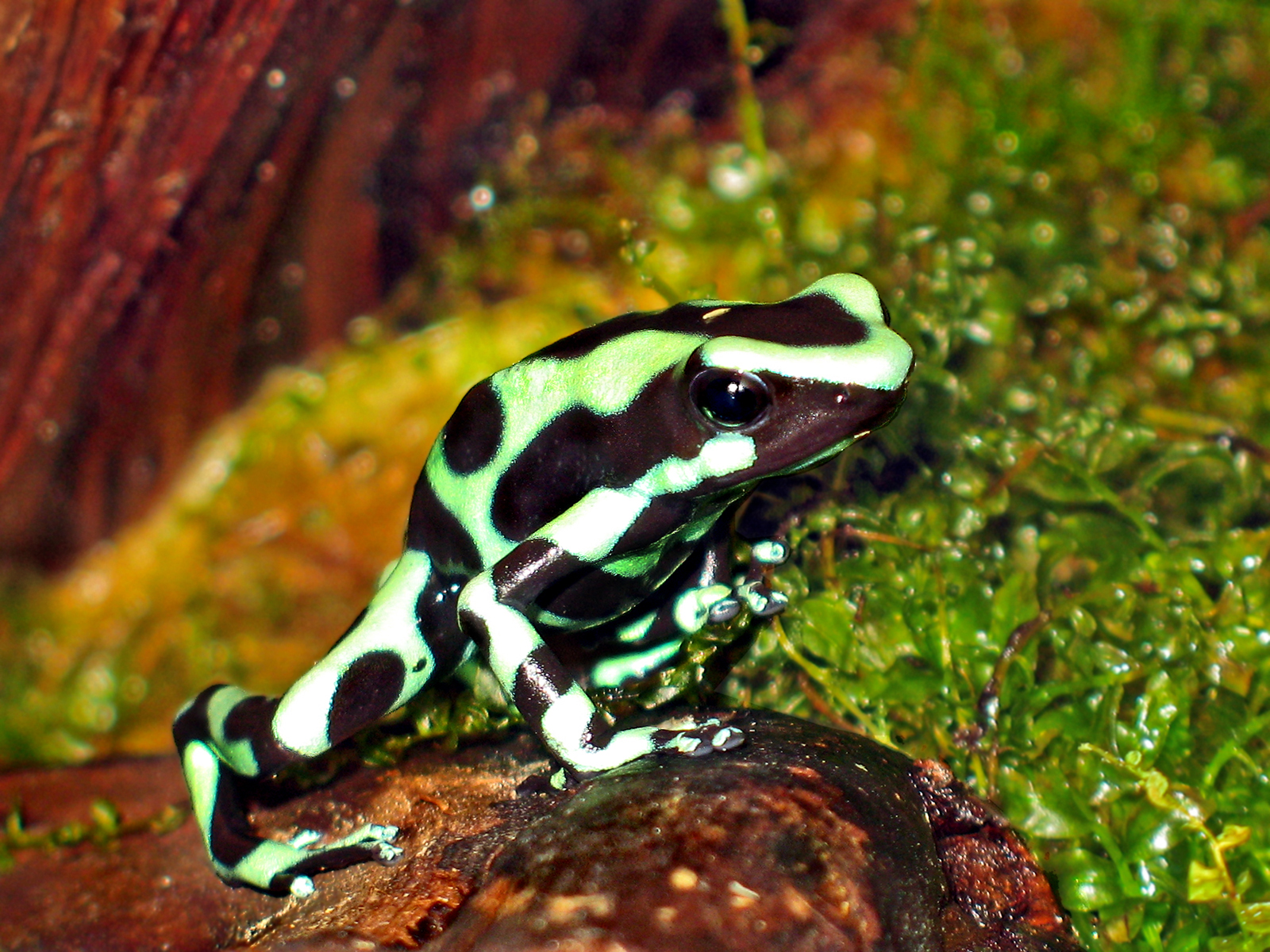 Green and black poison dart frog, green and black poison arrow frog